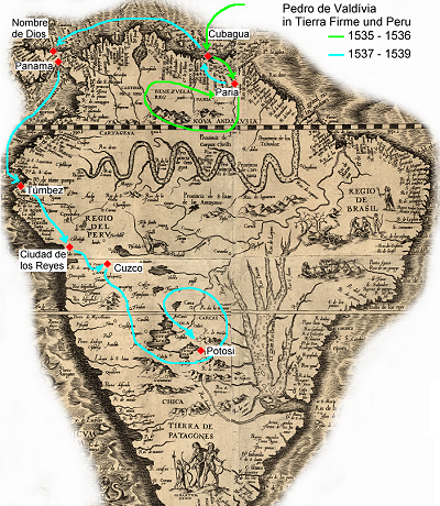 Pedro de Valdivia in Tierra Firme and Peru. Journeys of 1535 - 1539.